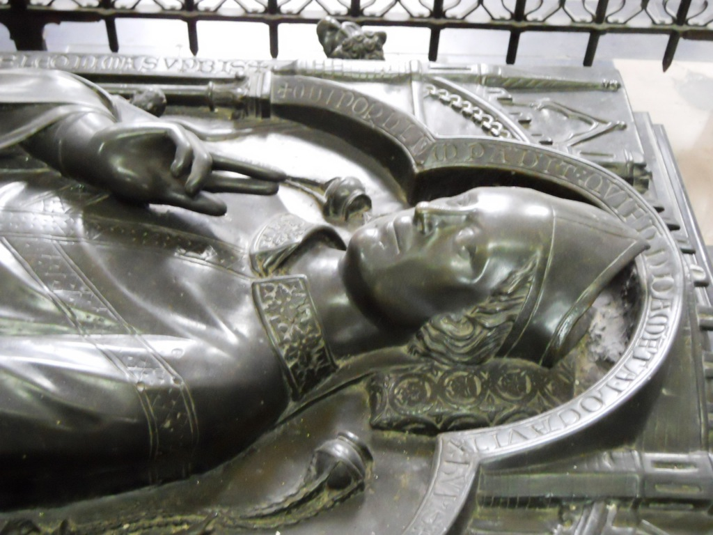 Evrard de Fouilloy tombstone